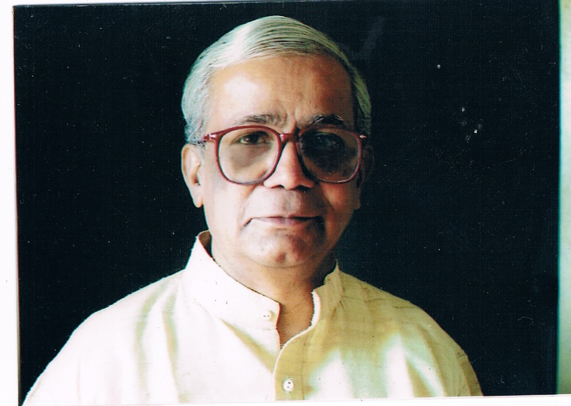 Photo by Shekhar Godbole (C)